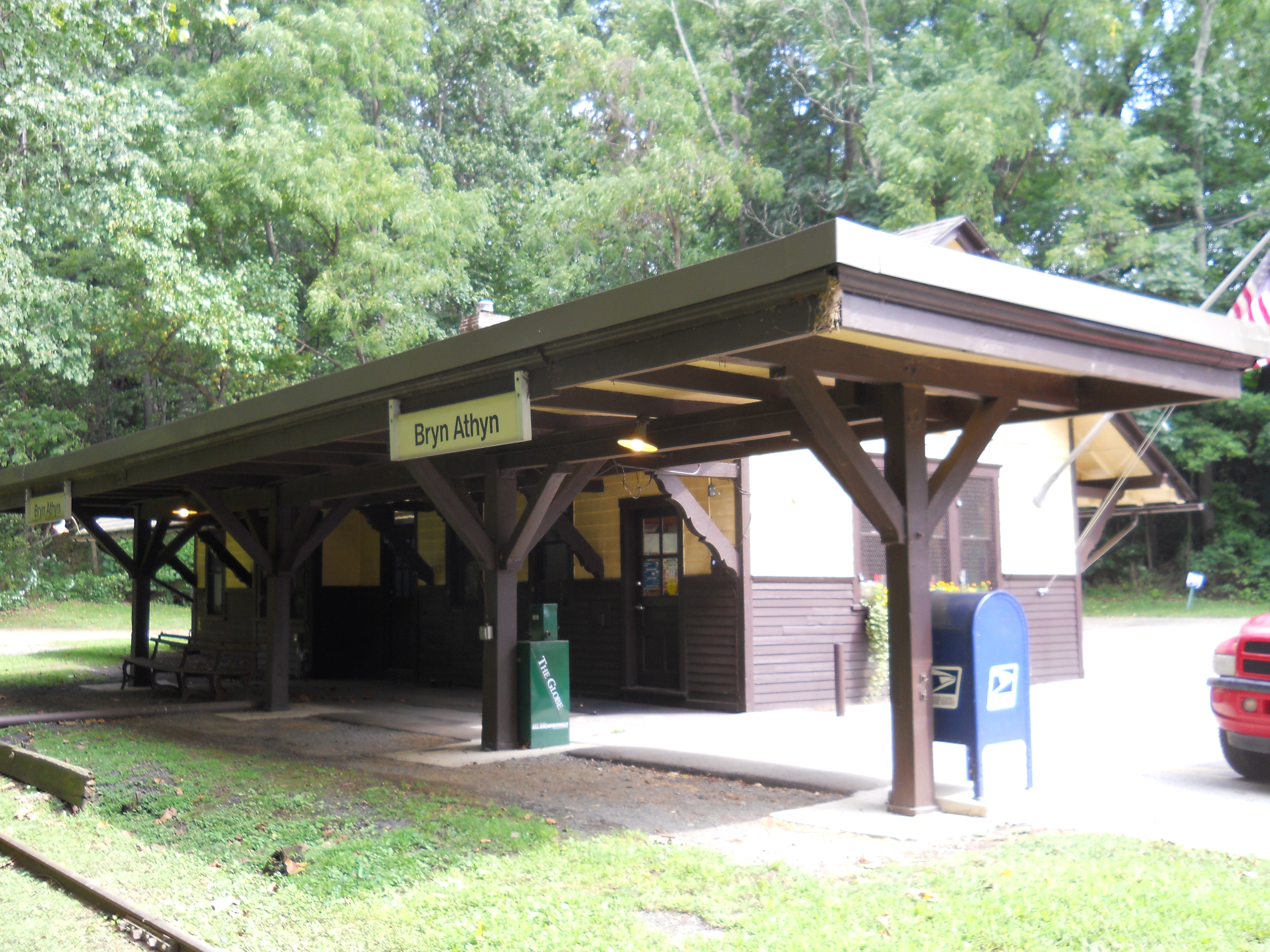 Fetter's Mill Village Historic District Fetter's Mill Village Historic District. Bryn Athyn Train Station (1902), now Bryn Athyn Post Office as of 2009.